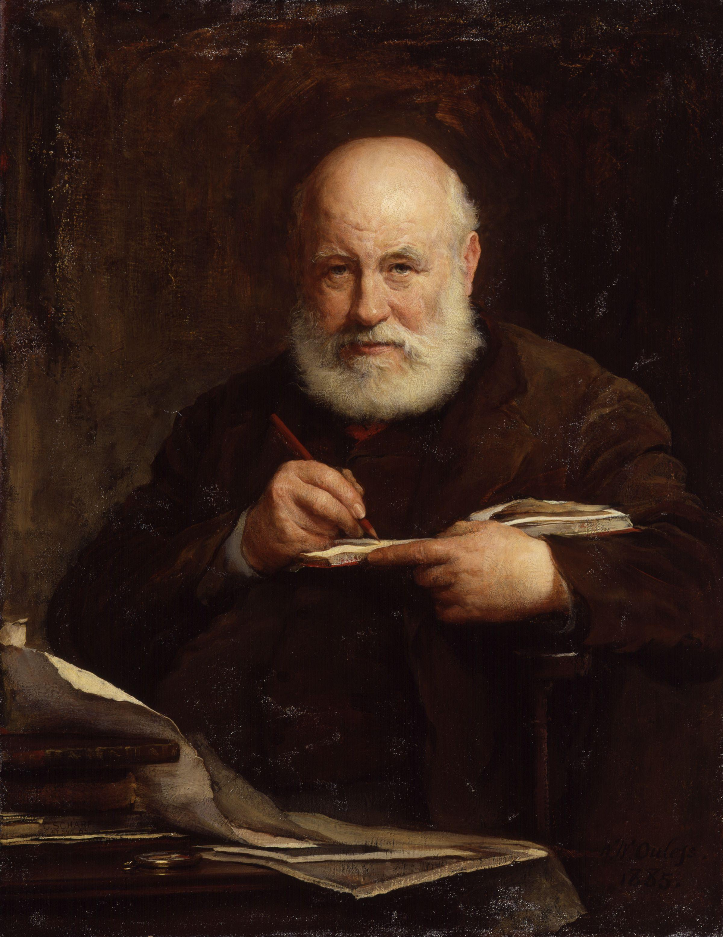 Sir George Scharf, by Walter William Ouless (died 1933), given to the National Portrait Gallery, London in 1886. All images in this batch have been confirmed as author died before 1939 according to the official death date listed by the NPG.